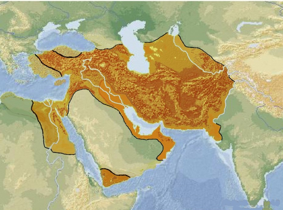 Map of the Sasanian Empire in c. 620. "This map depicts a far more accurate version, and is a more physical map."